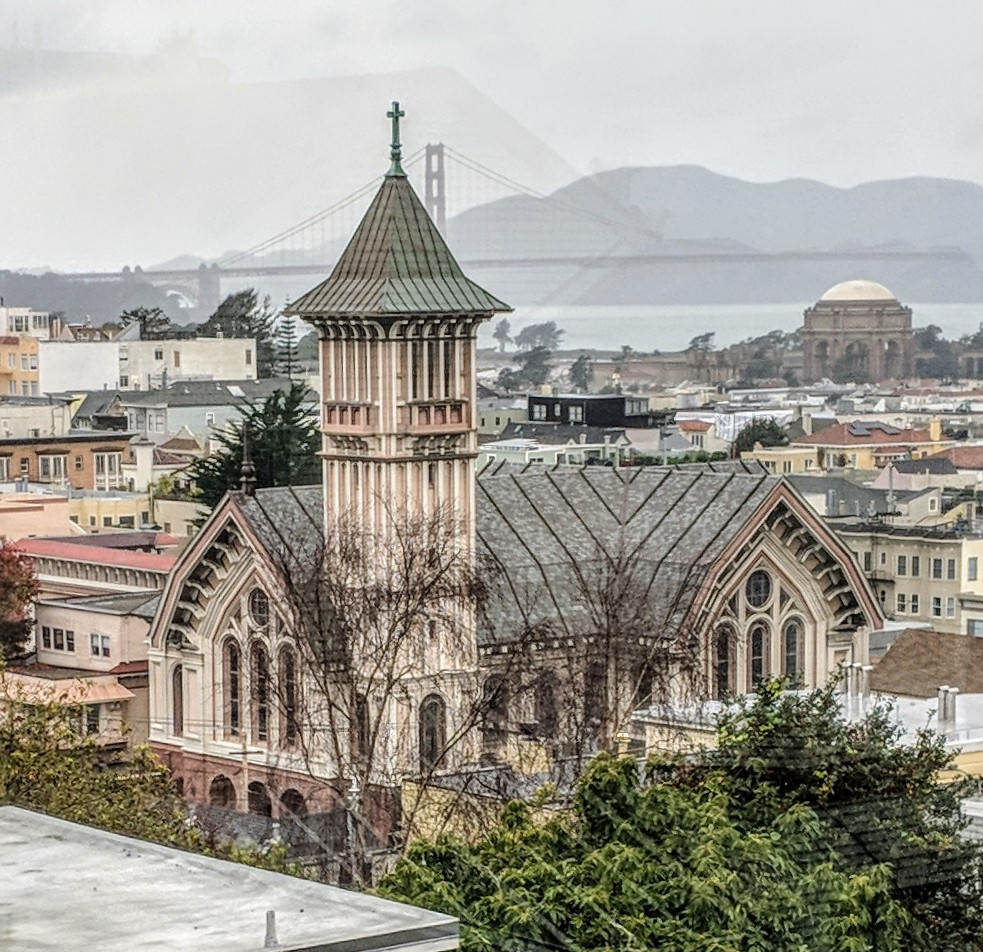 St. Vincent de Paul Church, San Francisco. Photo by Jim Heaphy